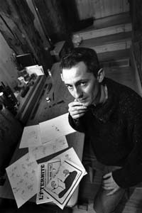 Philippe Becquelin